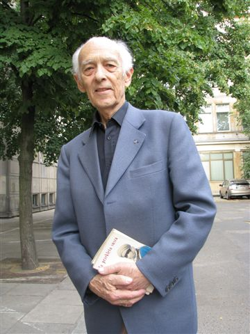 Olgierd Budrewicz (1923-2011), Polish journalist, and traveller